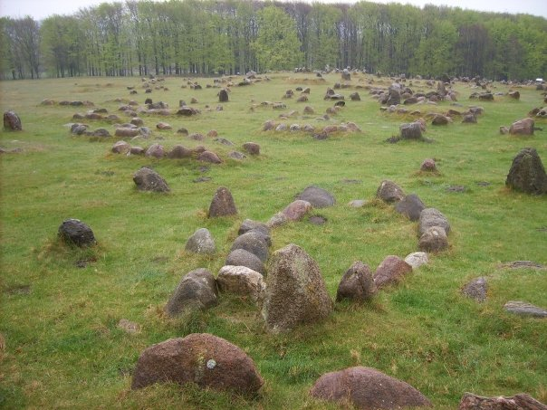 Lindholm Høje is a burial place in North Jutland from the Iron and the Viking Age.